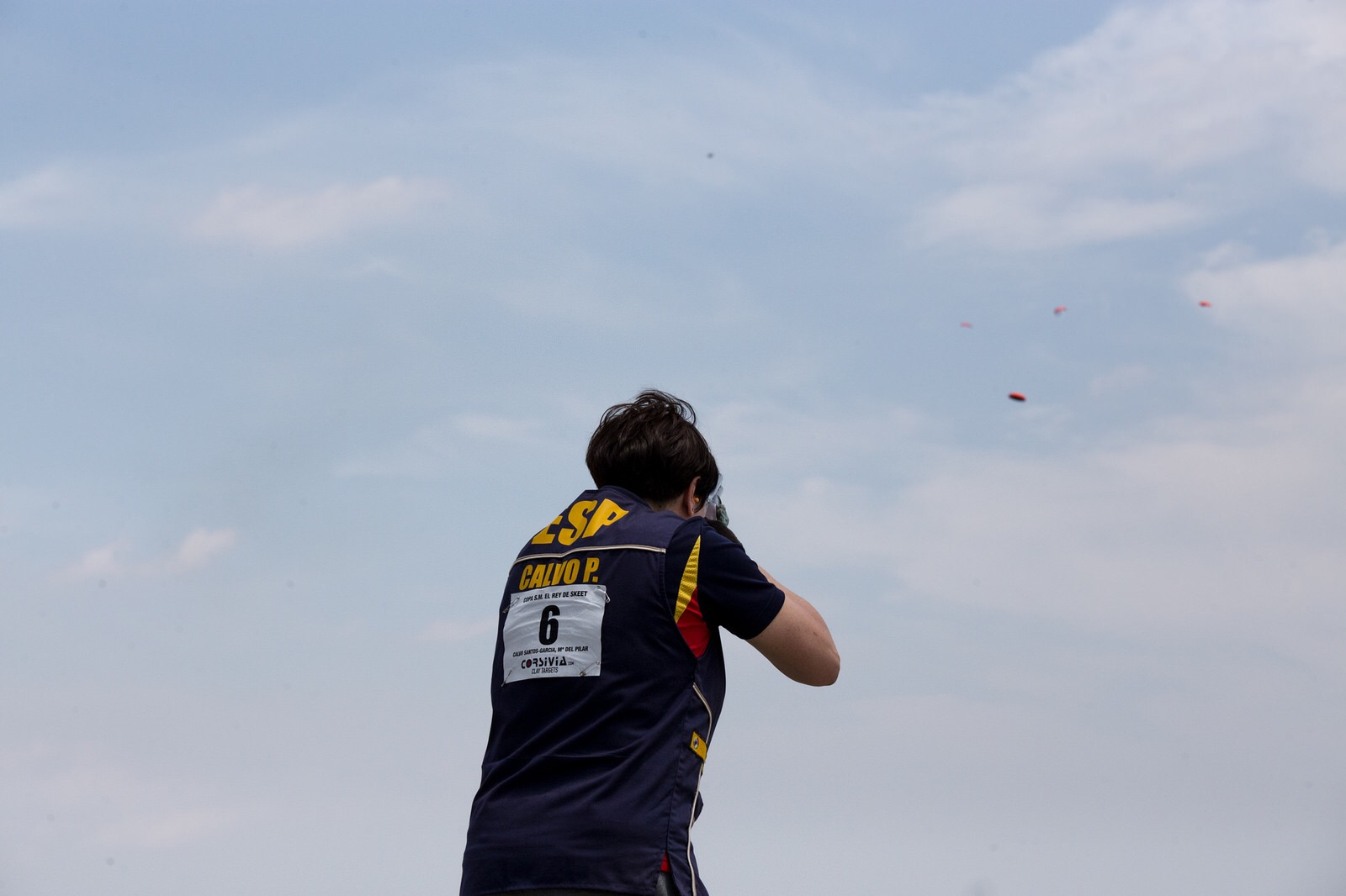 Skeet Championship 2016